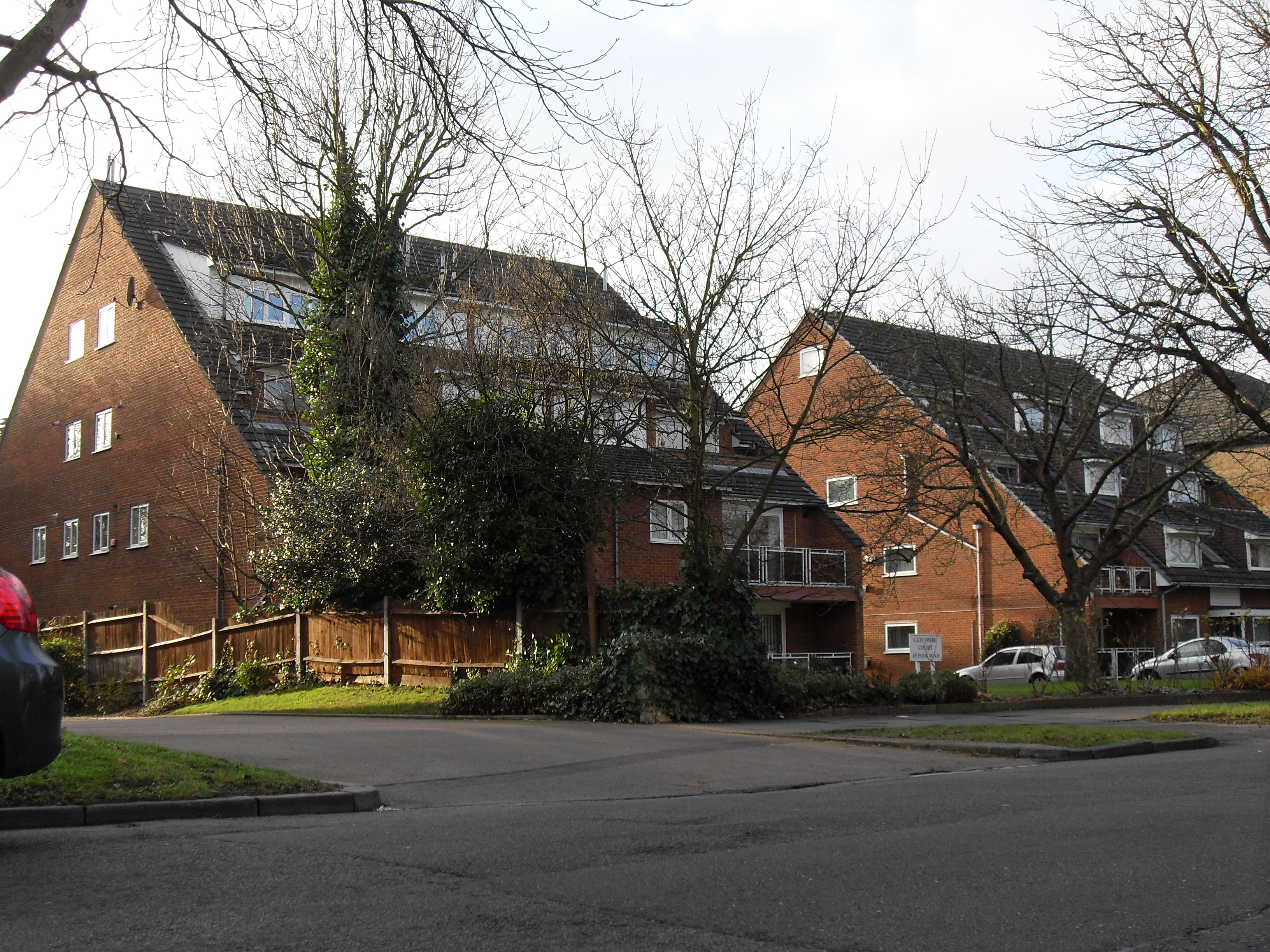 Gatcombe Court and Highgrove Court by Frank Pullen and sons circa 1985, Park road, Beckenham, London Borough of Bromley